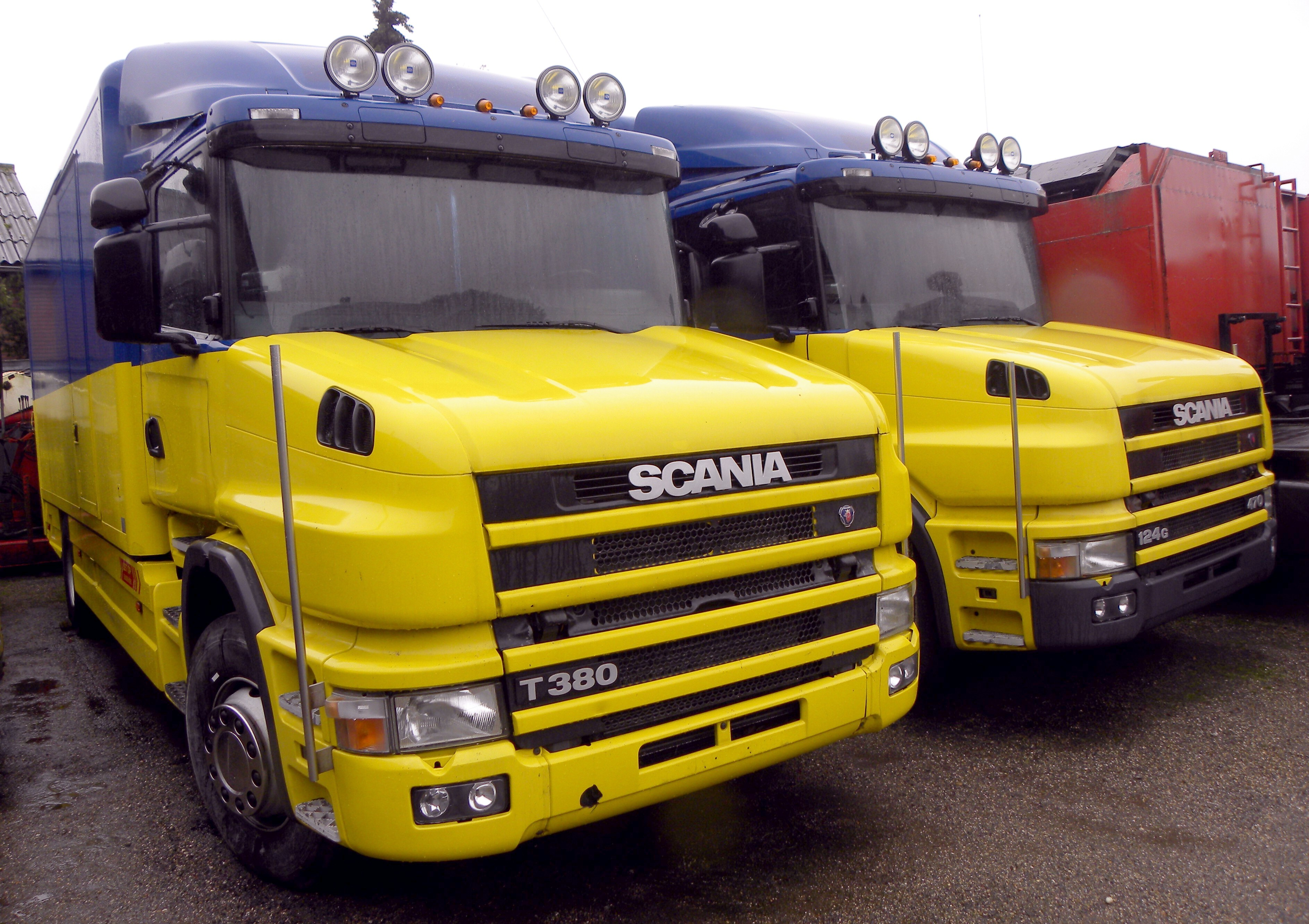 Scania T 380 and 124 G 420